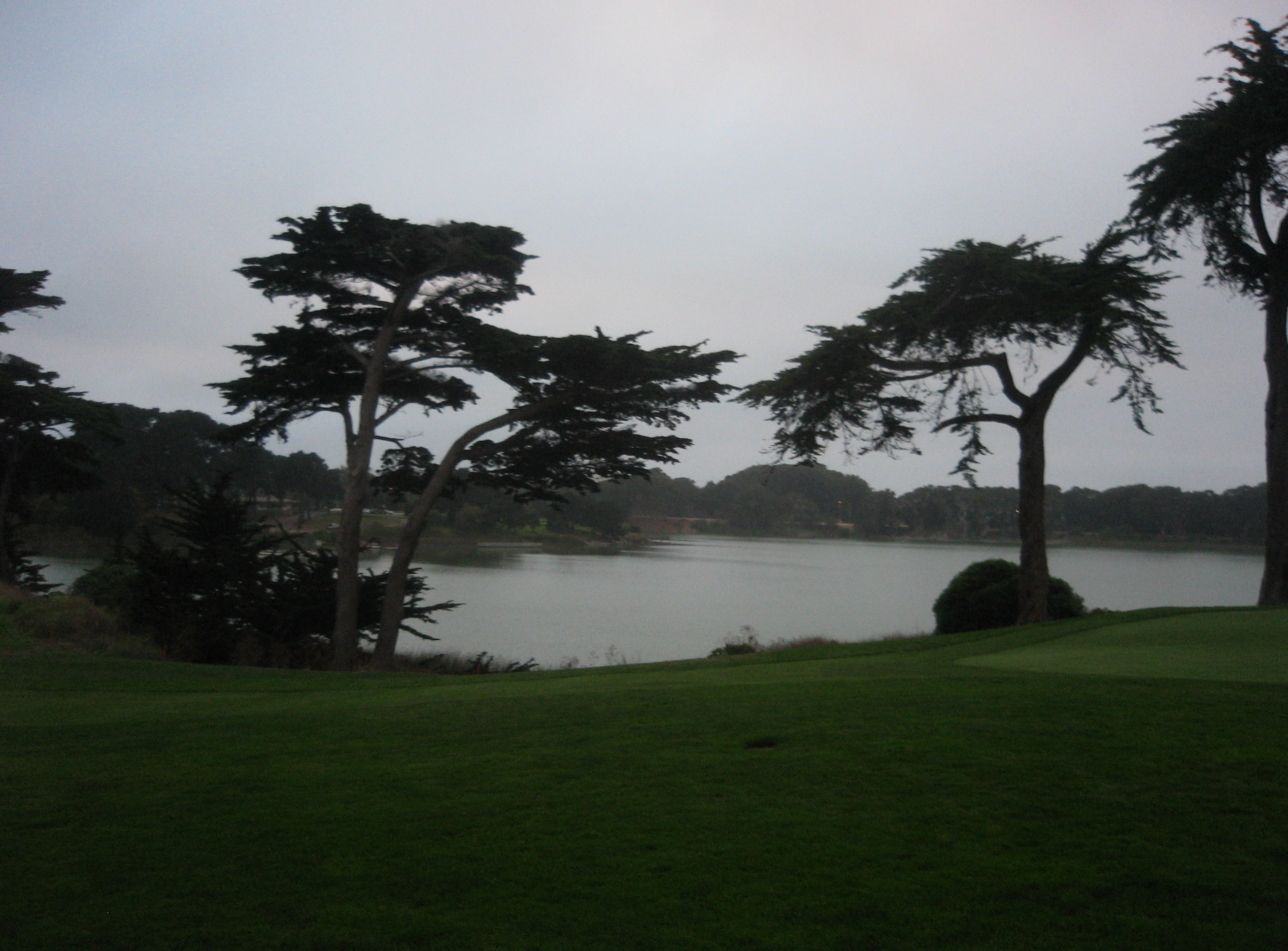 Harding Park Golf Club.